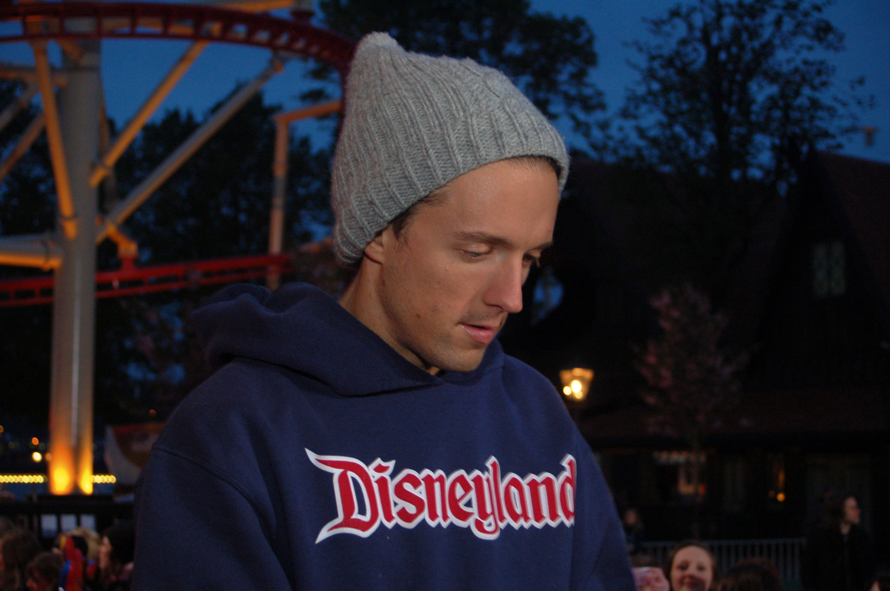 Jason Mraz, performing at Gröna Lund in Stockholm, Sweden.